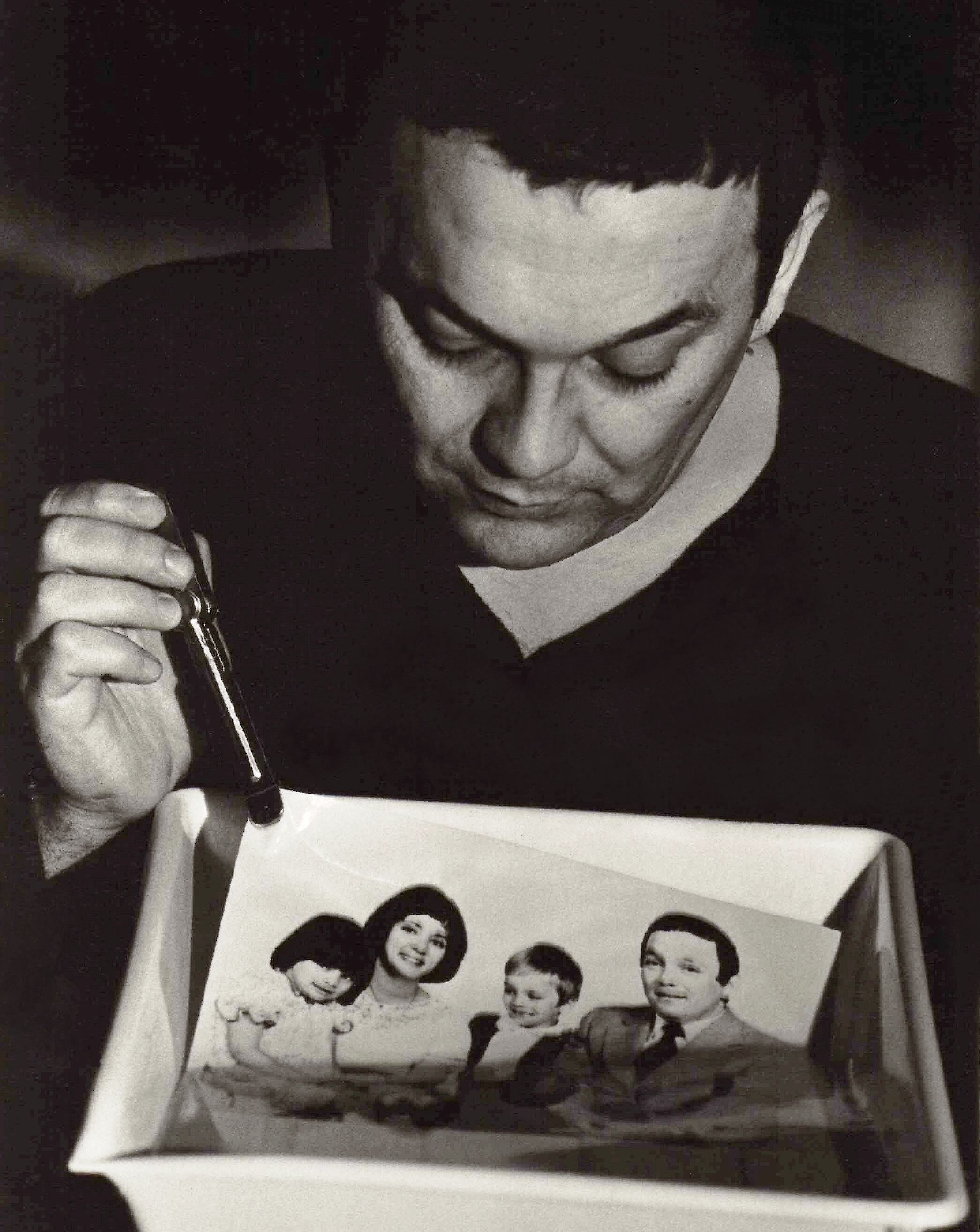 Self portrait in the darkroom - Mons - Belgium.